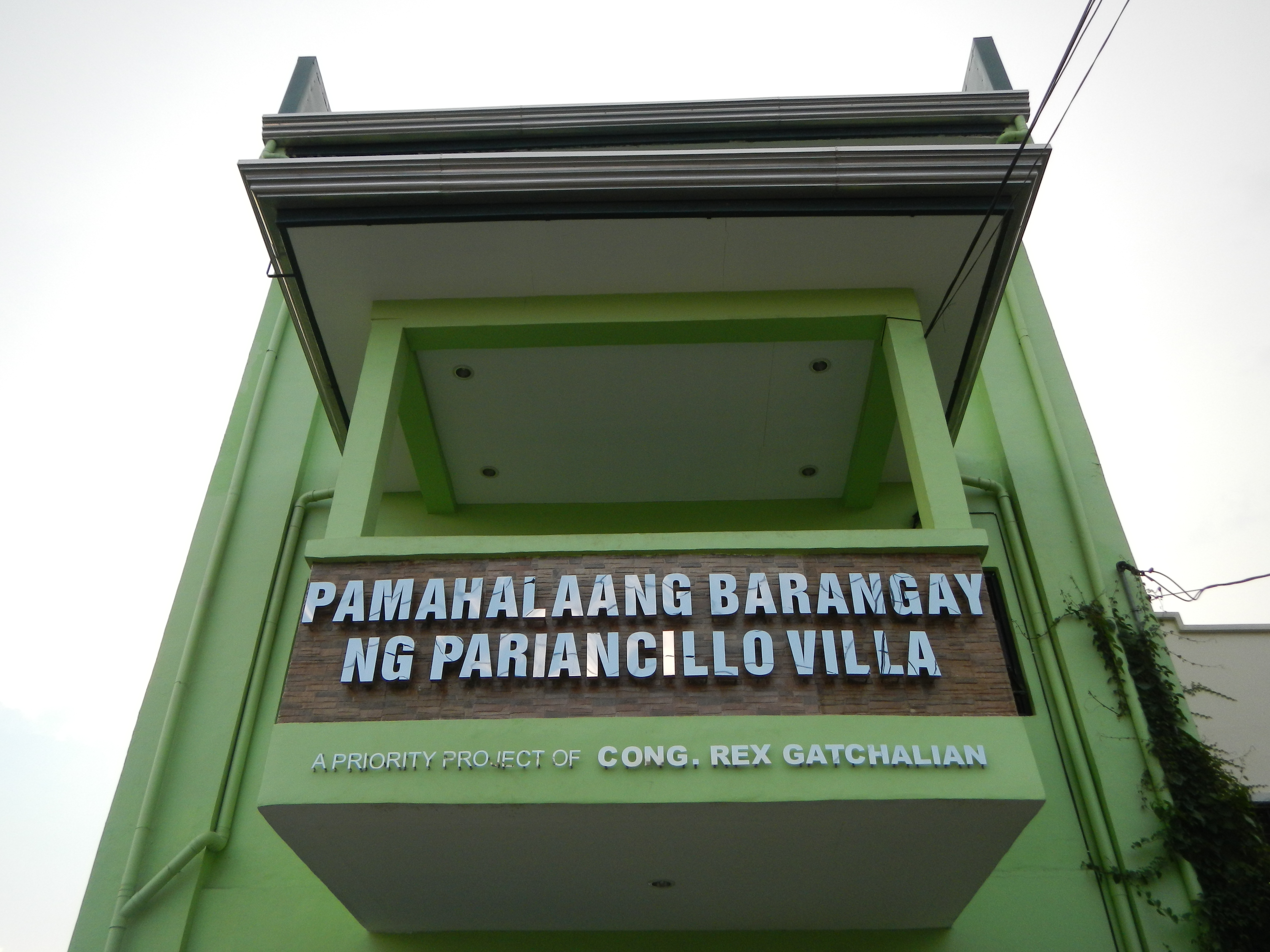 Pariancillo Villa, Valenzuela, Valenzuela, Philippines (List of barangays in Valenzuela- Valenzuela).